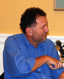 New Zealand politician Shane Jones, cropped and adjusted from photo by PCE